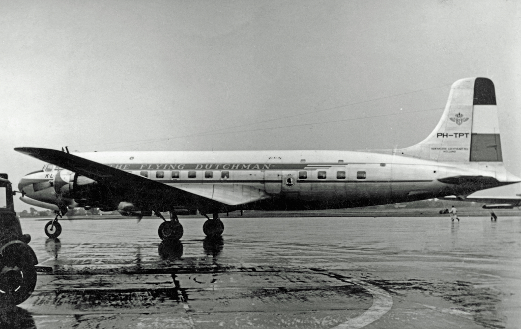 Douglas DC-6 PH-TPT of KLM at Manchester (Ringway) Airport in 1953